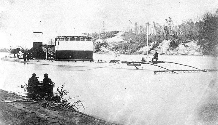 In Trent's Reach on the James River, Virginia, circa early 1865. Note the mine sweeping rake attached to her bow.